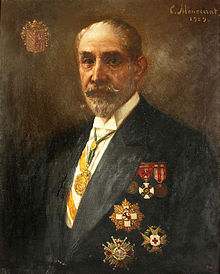 Retrat de Josep Ferrer-Vidal i Soler (1929)